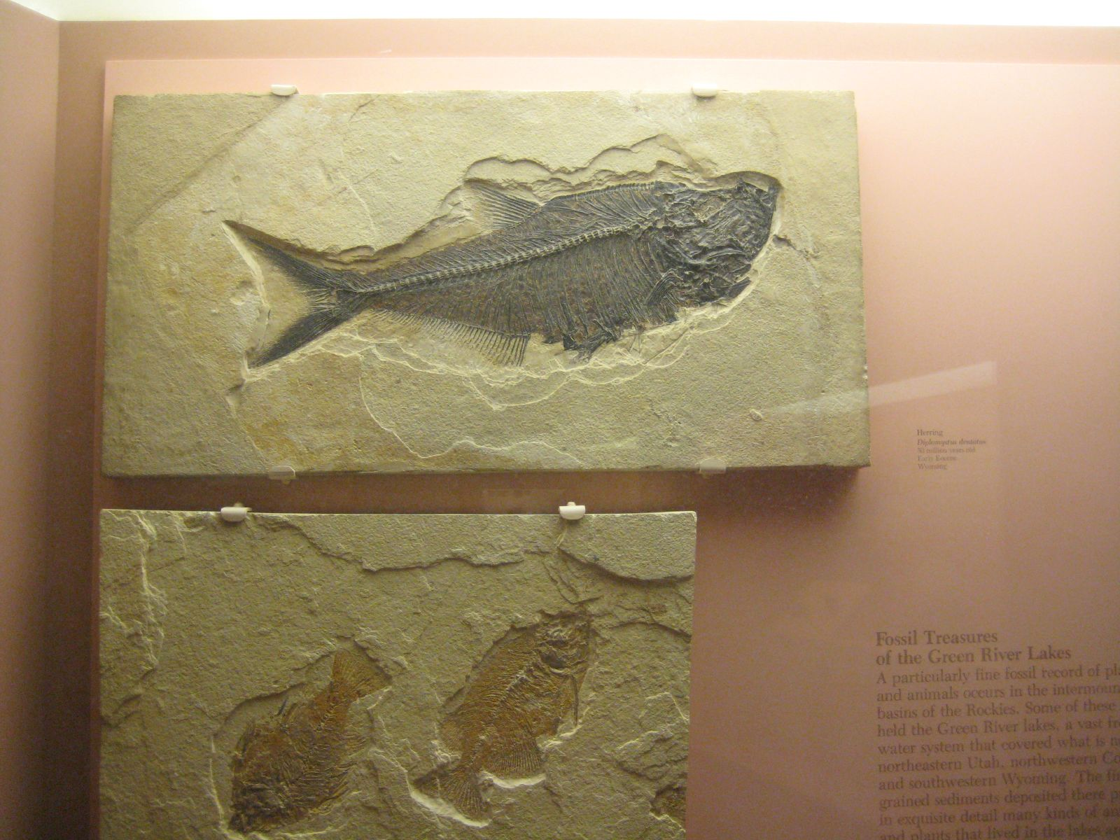 Fossil Diplomystus dentatus(top), Priscacara sp. (bottom left) and Phareodus sp. (bottom right). 50 million years old; Early Eocene; Green River Formation. Wyoming(?)